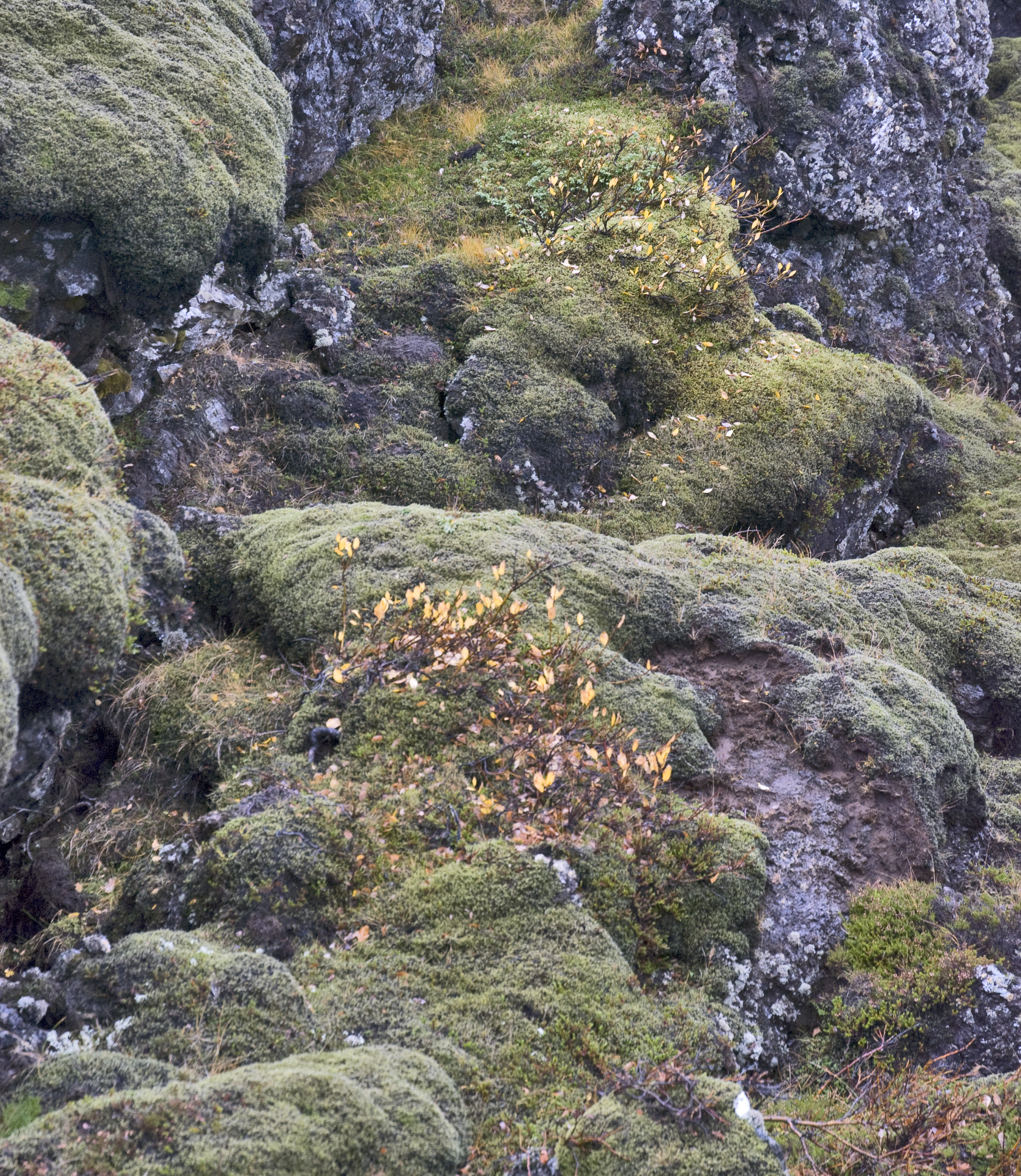 The blue Lagoon, Iceland